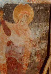 St. Marina from the church St. Nicholas, village of Kosel, Ohrid, Macedonia west wall, 15th century